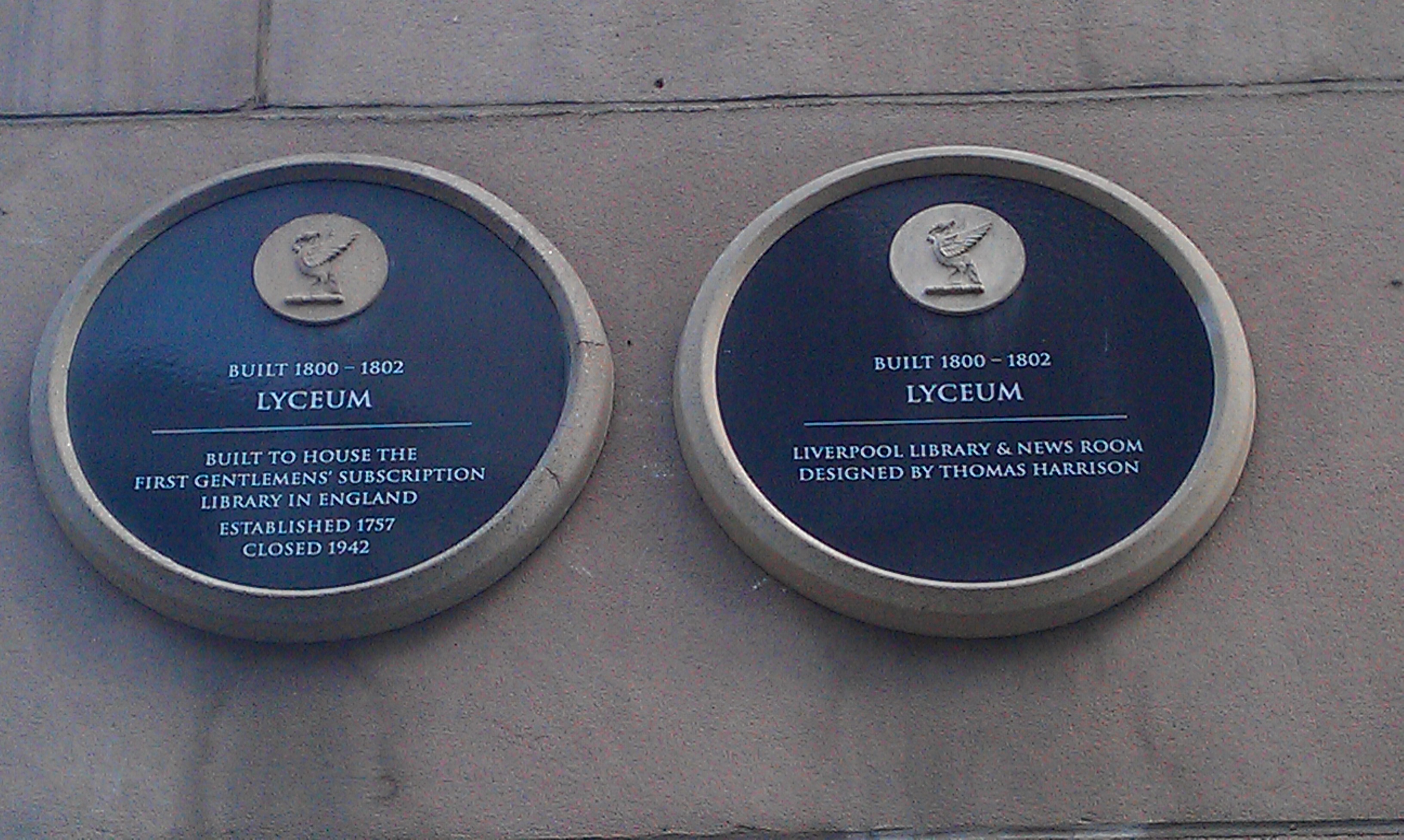 The Lyceum Blue Plaque (Liverpool)